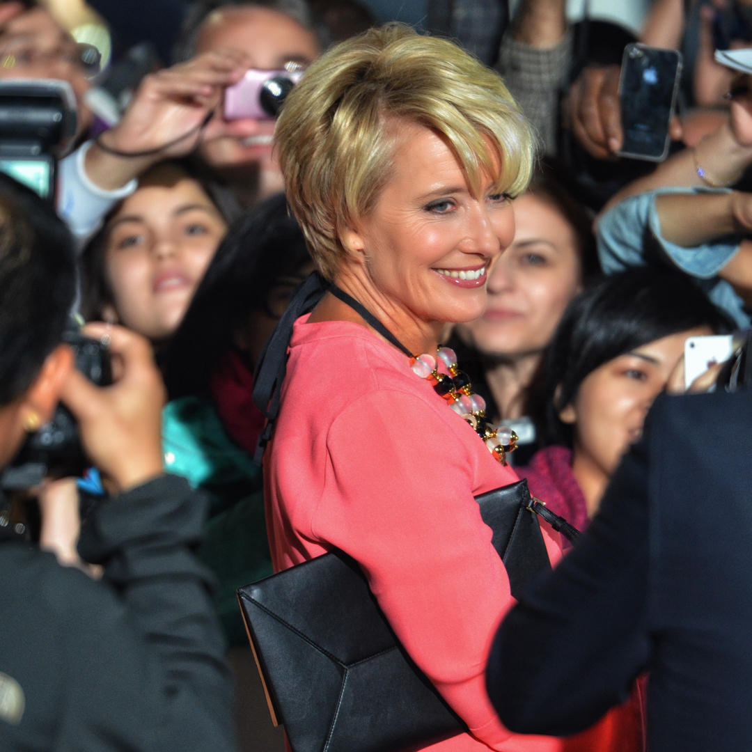 Emma Thompson at the premiere of The Love Punch at the 2013 Toronto International Film Festival.